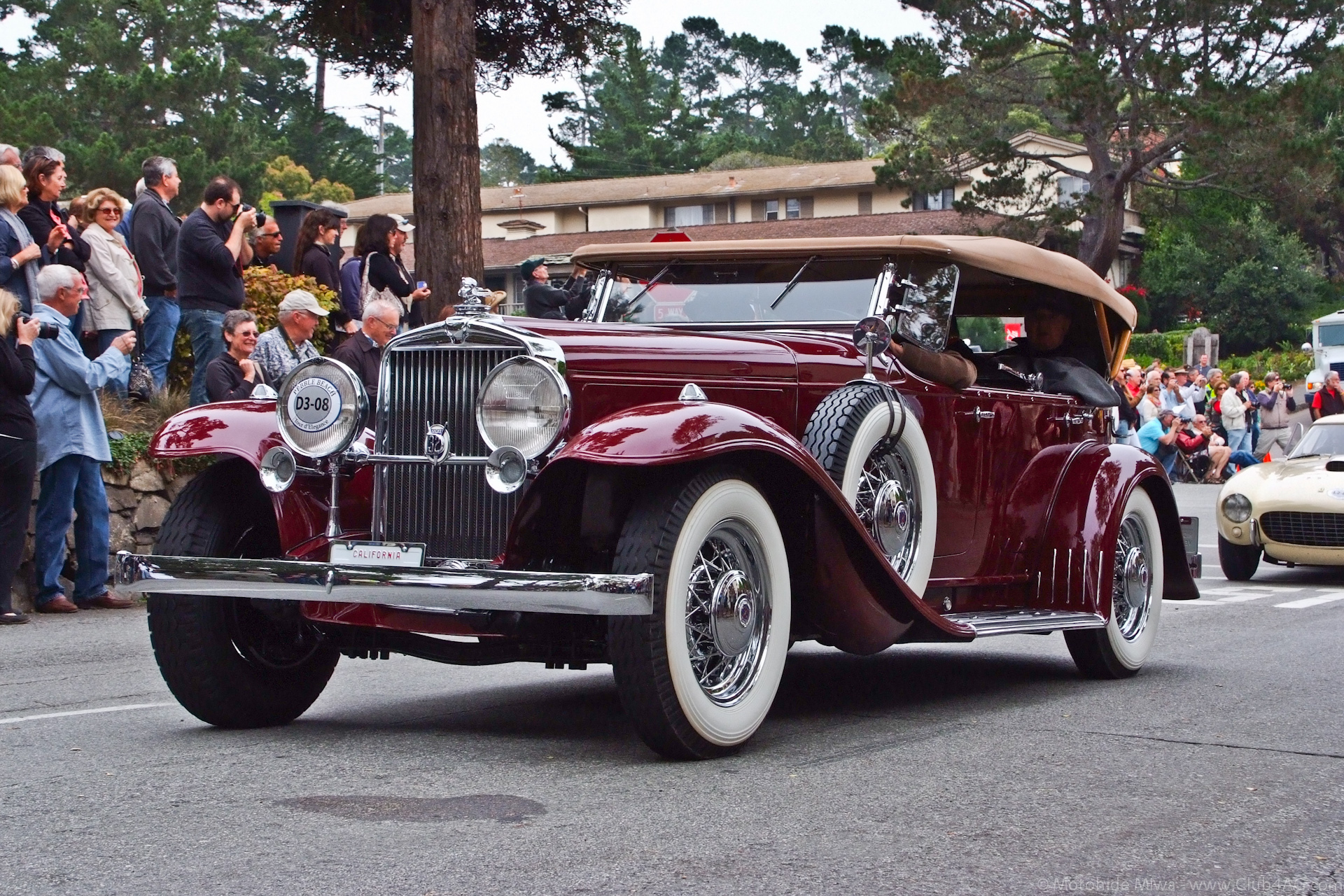 1933 Stutz DV-32 Monterey_Historics_2011-10-135